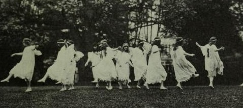 Abbot Academy students perform in an outdoor drama production of "Masque of the Flowers", circa 1874.